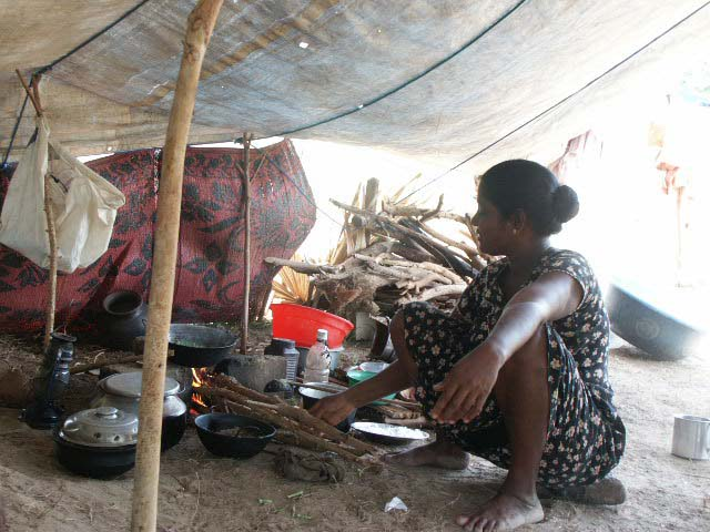 IDP woman in a temporary kitchen